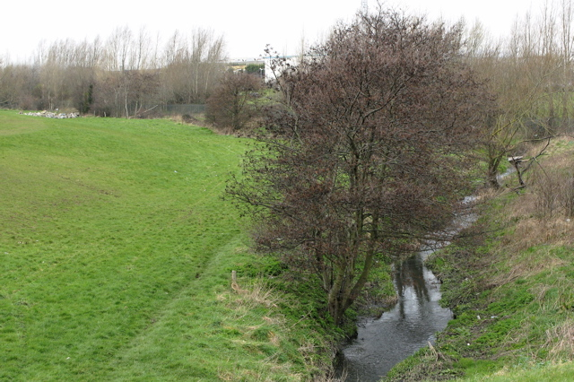 Santry River, Kilmore, Dublin 17 Not navigable at this point !!